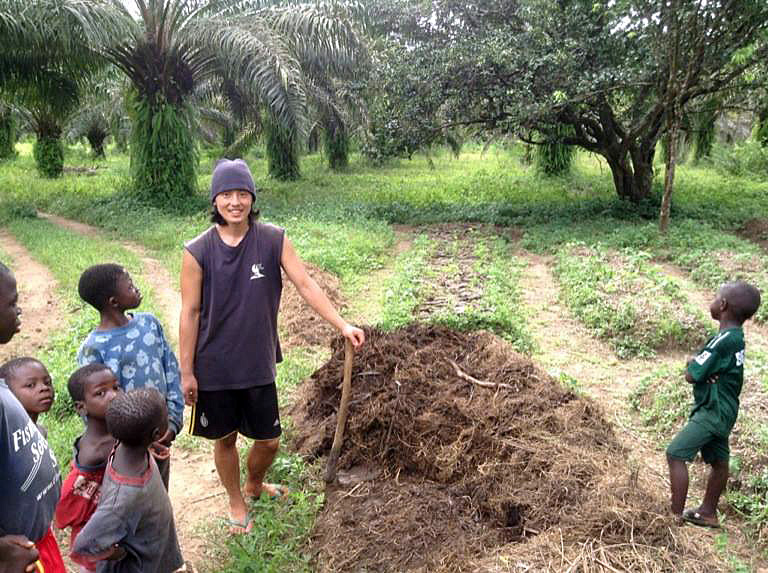 Here Kentaro Japanese Wwoofer is the first Asian that these young rural children have met. He explains how he's making his compost This is an image of food from Guinea